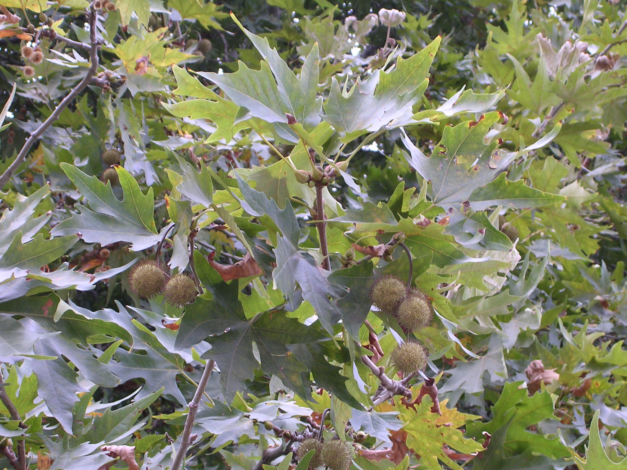 Plane (Platanus orientalis) fruit on the tree, Thasos in Greece